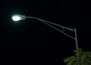 Photograph of a 250-Watt mercury vapor streetlight approximately 45 minutes before sunrise.